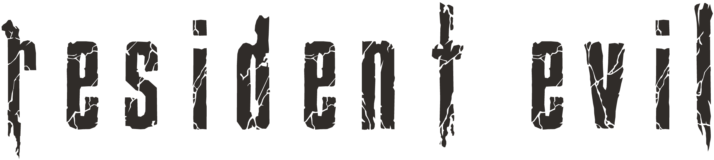 Resident Evil series western logo